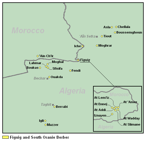 Map of South Oranie and Figuig Berber speaking ksours, adapted from File:Ksours.png by user:Lameen Souag, according to A. Basset (1941) and UNESCO's Atlas of Endangered Languages (2009 + updates)